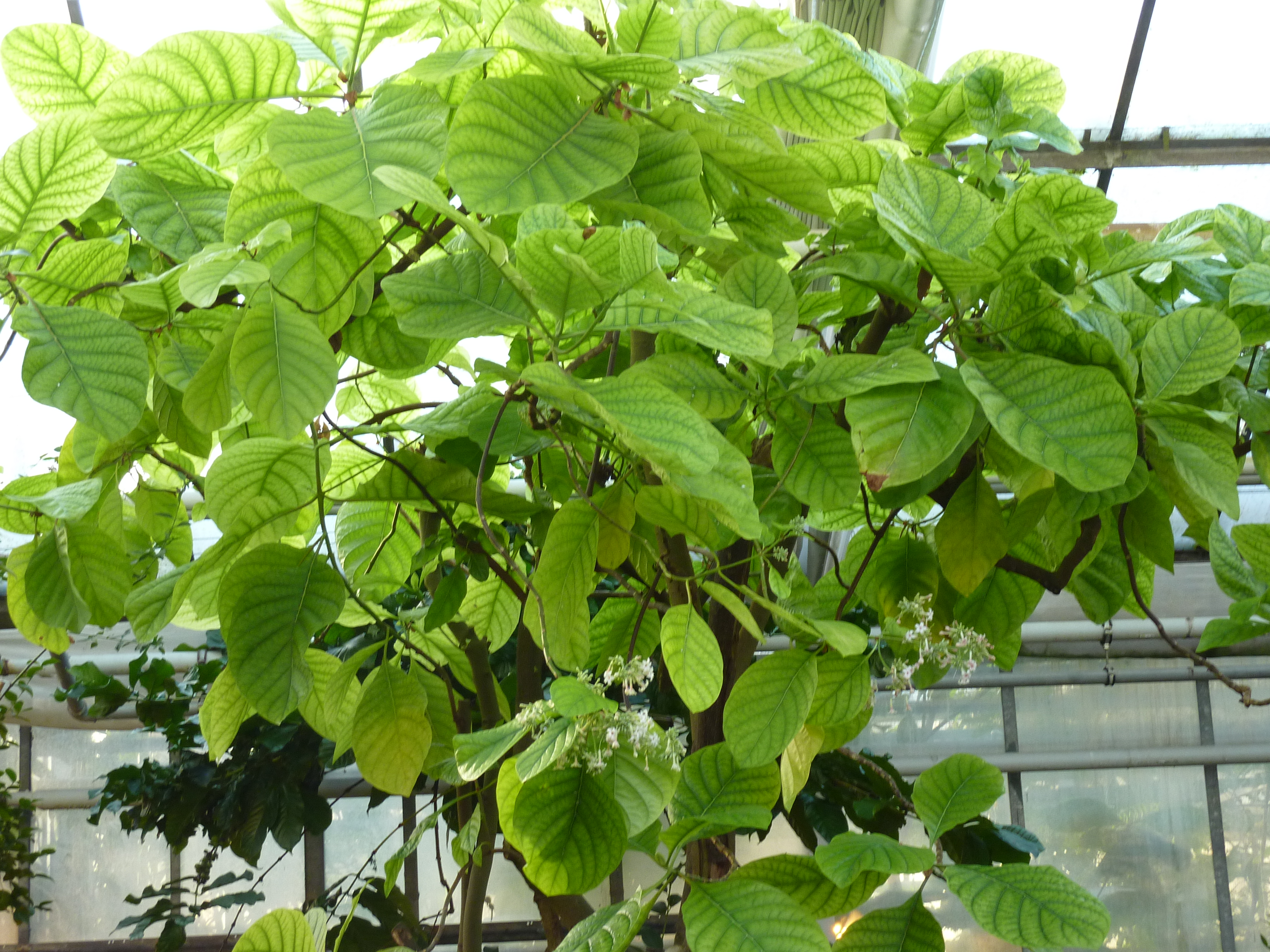 Cinchona officinalis L. growing in the greenhouse of the Deutsches Institut für tropische und subtropische Landwirtschaft, Witzenhausen, Germany